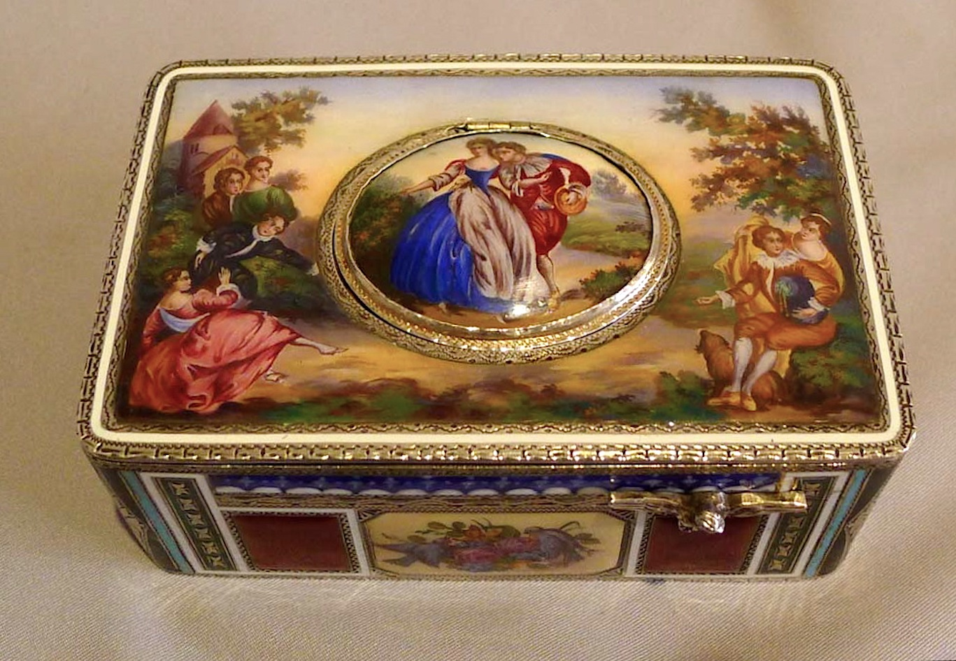 A silver and enamel singing bird box. The German singing bird box was produced by Griesbaum and is one of his best models and the most expensive to produce. It has the typical silver bird activation slide to the front. On pressing the silver bird lever to the right the lid lifts and the feathered bird pops up through the pierced grill and begins singing. The bird turns to the right and left, singing all the time, opening and closing his beak and flapping both wings. When he has comleted his song he pops down into the box through the grill and the lid closes. German circa 1925-30. 4.5 inches wide by 2.5 inches deep by 1.5 inches high ( 10 cm by 6.25 cm by 3.75 cm).